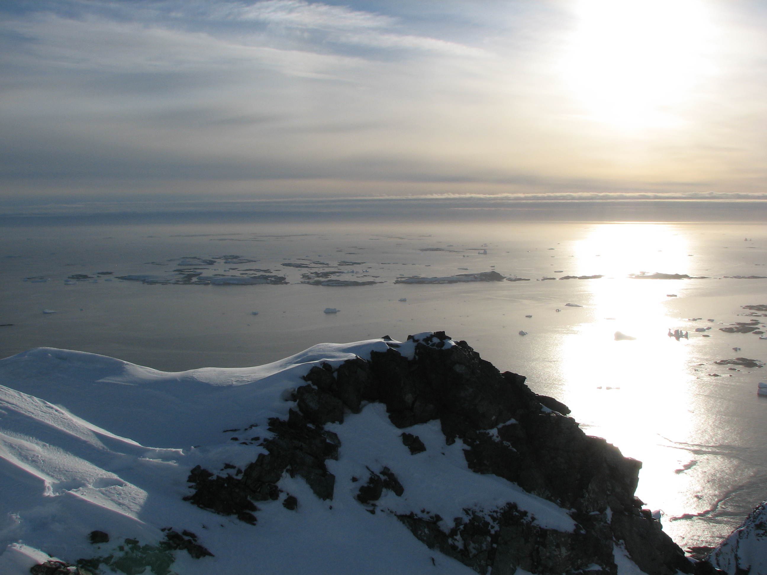 The Centenary of Plast Peak